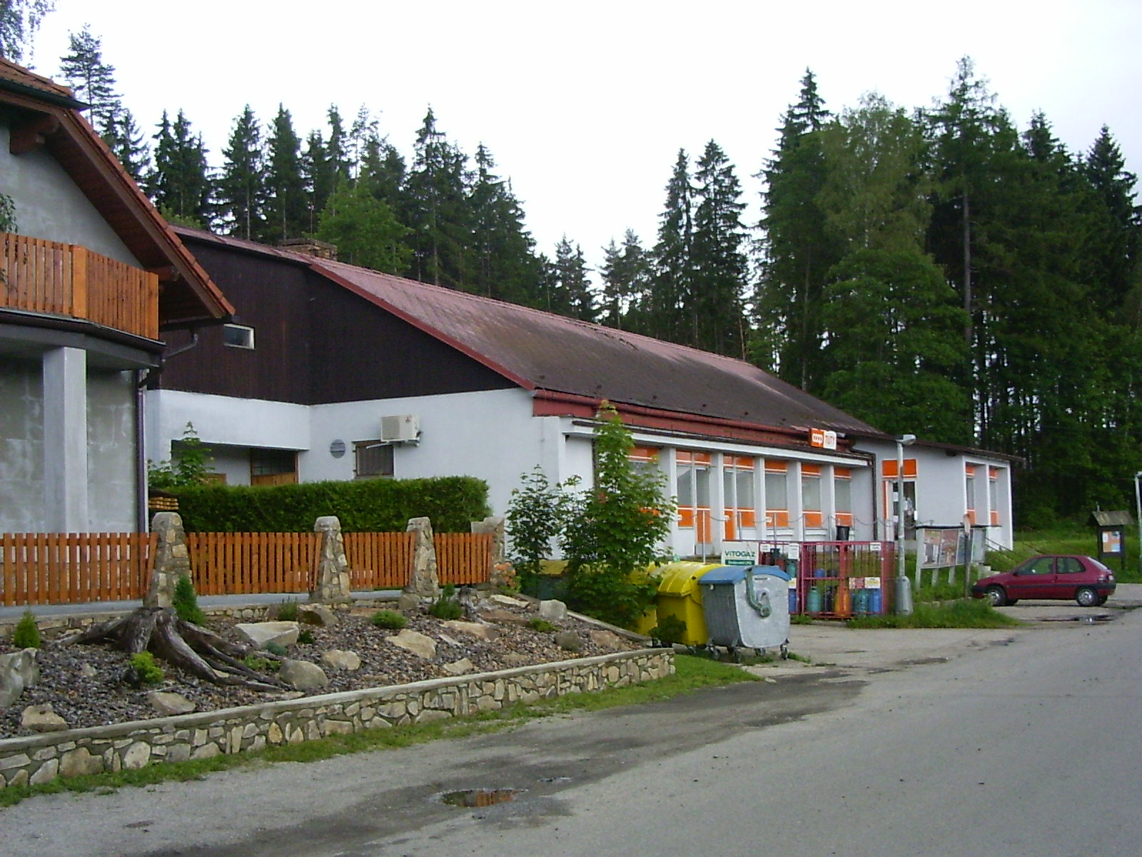 Nová Pec, village supermarket